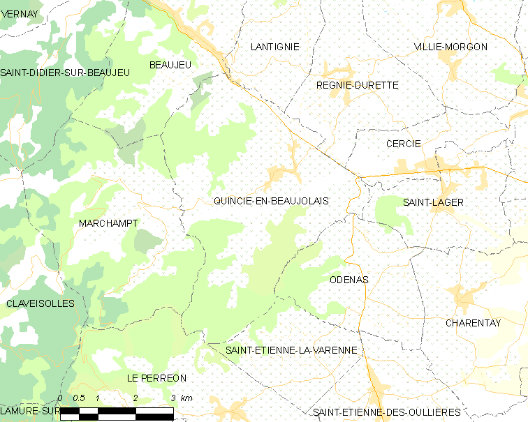 Map of French municipality